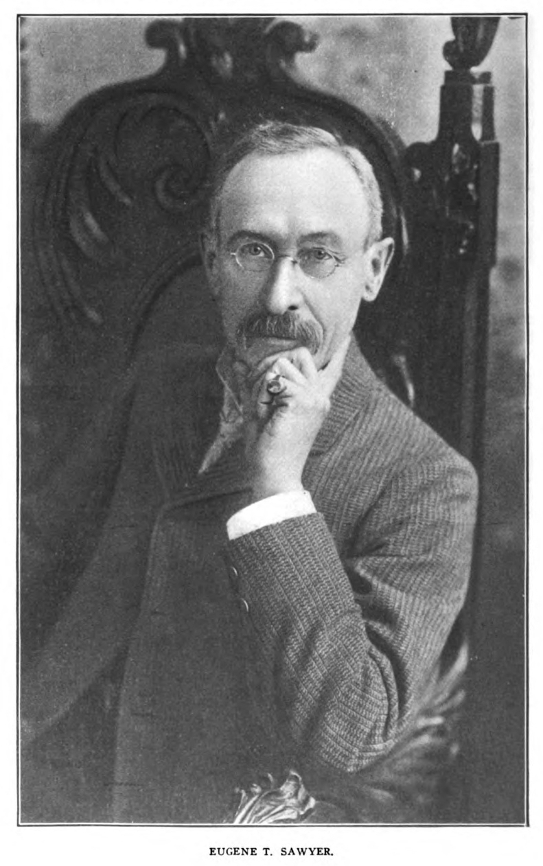 The Confessions of the Dime-Novelist: An Interview, in The Bookman, v. 15, no. 6, August 1902, pp. 528